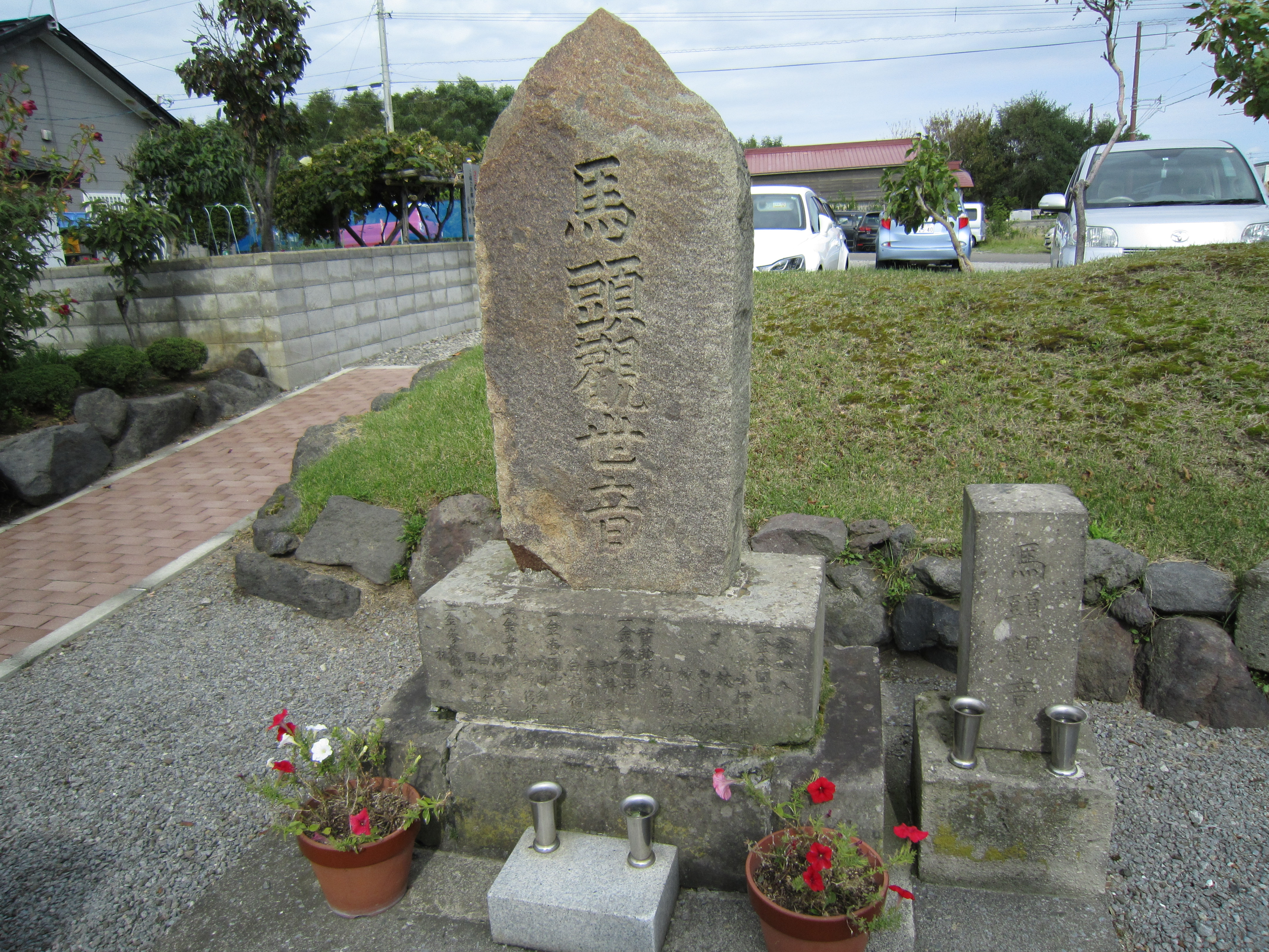 Hayagriiva at Sogen-ji